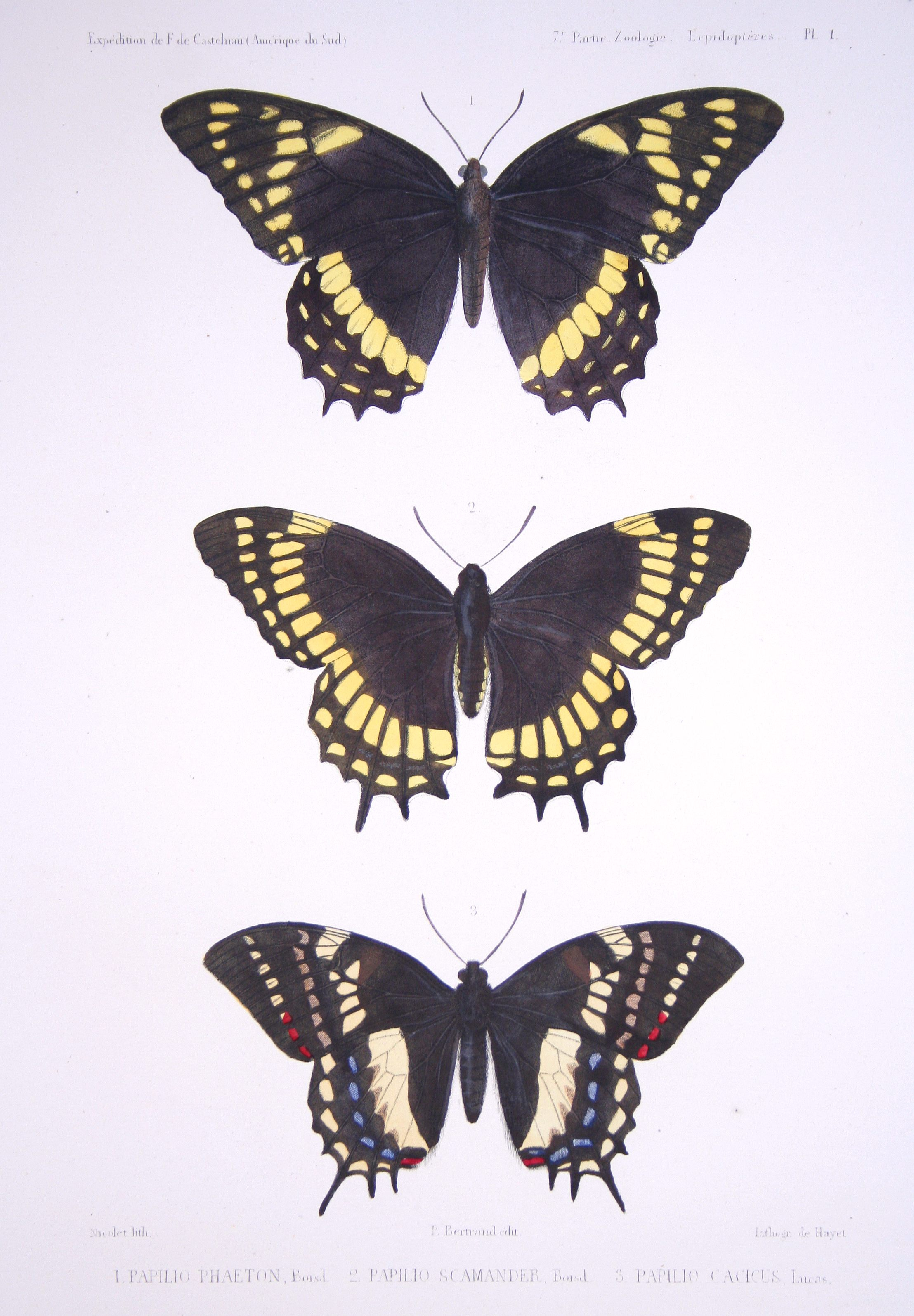 From top to bottom: Papilio phaeton Boisd. [non Drury [1773 = Papilio menatius syndemis (Tyler, Brown & Wilson, 1994) Papilio scamander Boisd. = Papilio scamander Boisduval, 1836 Papilio cacicus Lucas = Papilio cacicus Lucas, 1852